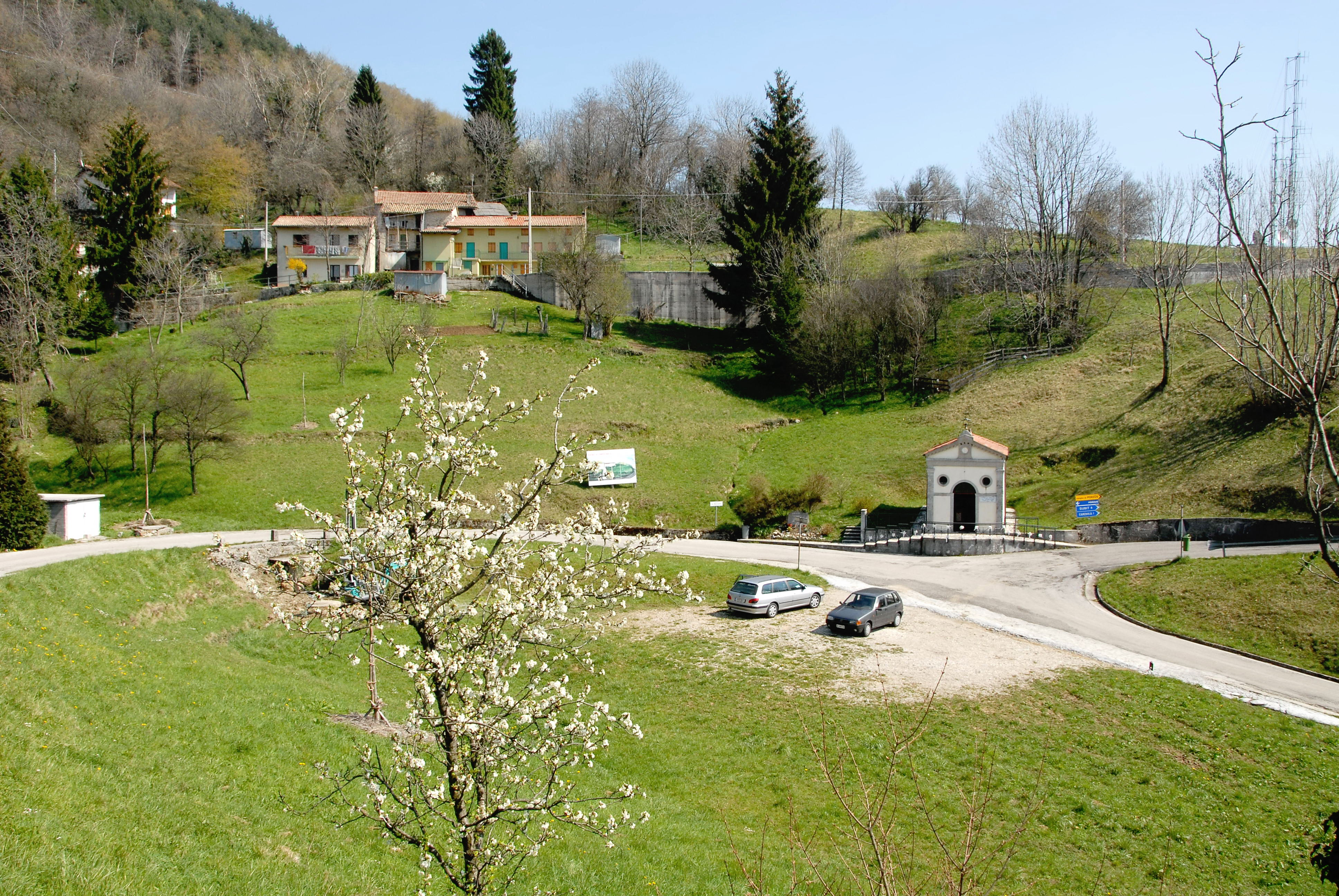 Dolina with chapel at the mountain village Porzus in the community of Attimis, Friuli, Italy